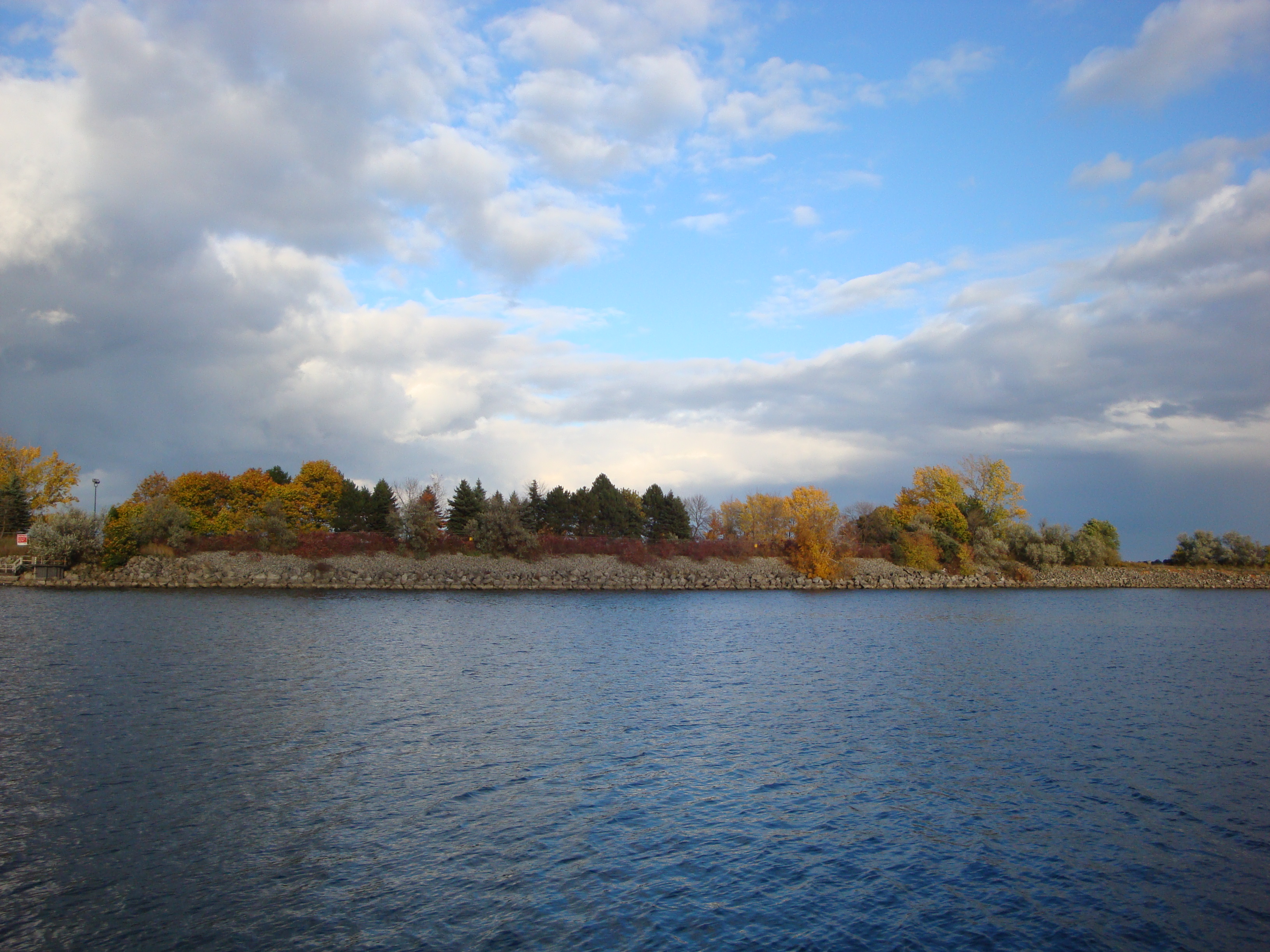 View from the Waterfront Trail, Lakeview, Mississauga